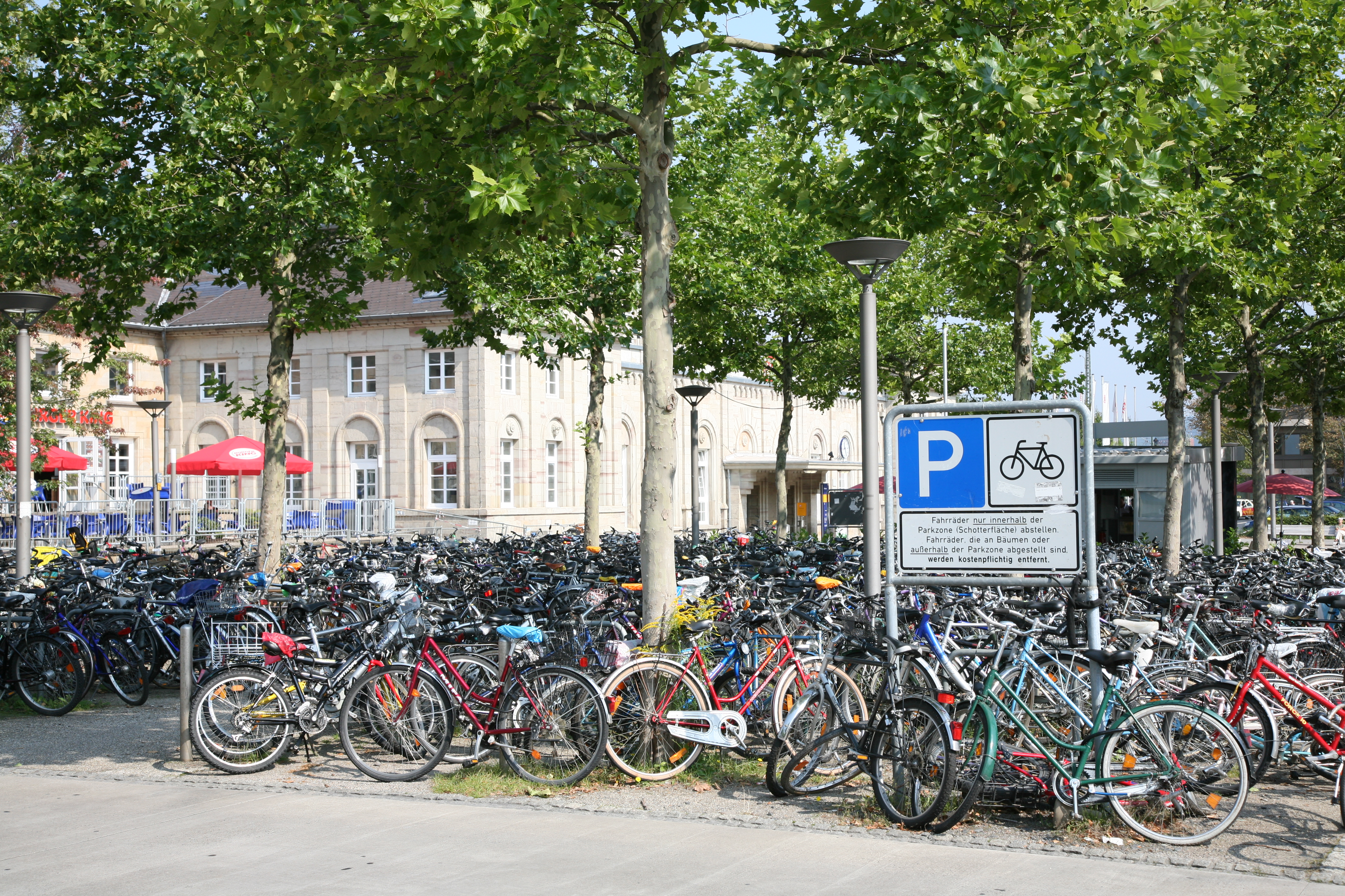 Bicycles in front of the train sation in Goettingen, Germany